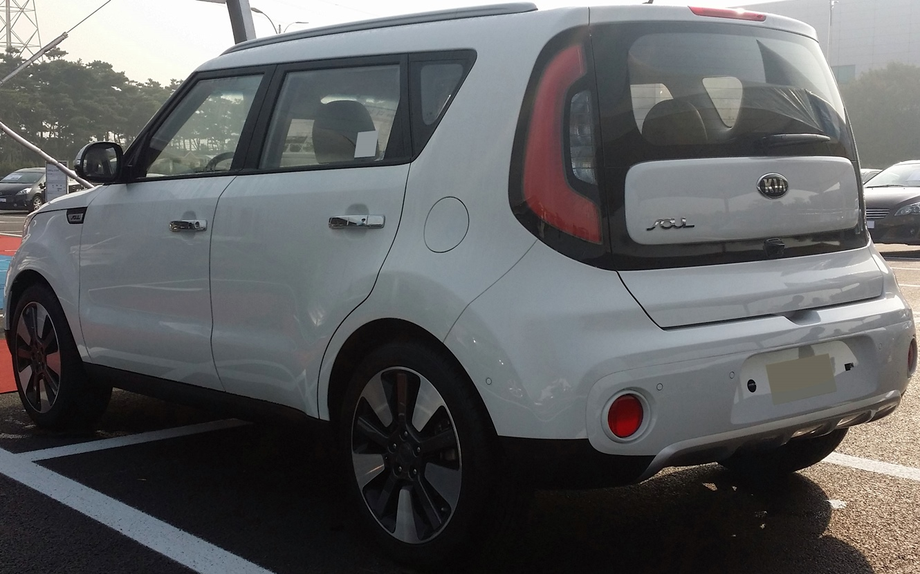 Kia The New Soul